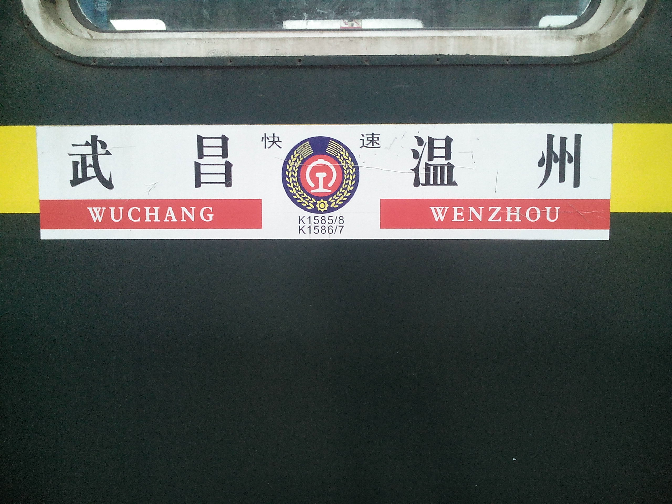 K1585 6 7 8 infoboard in 201603